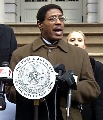 New York State Assemblyman William Scarborough